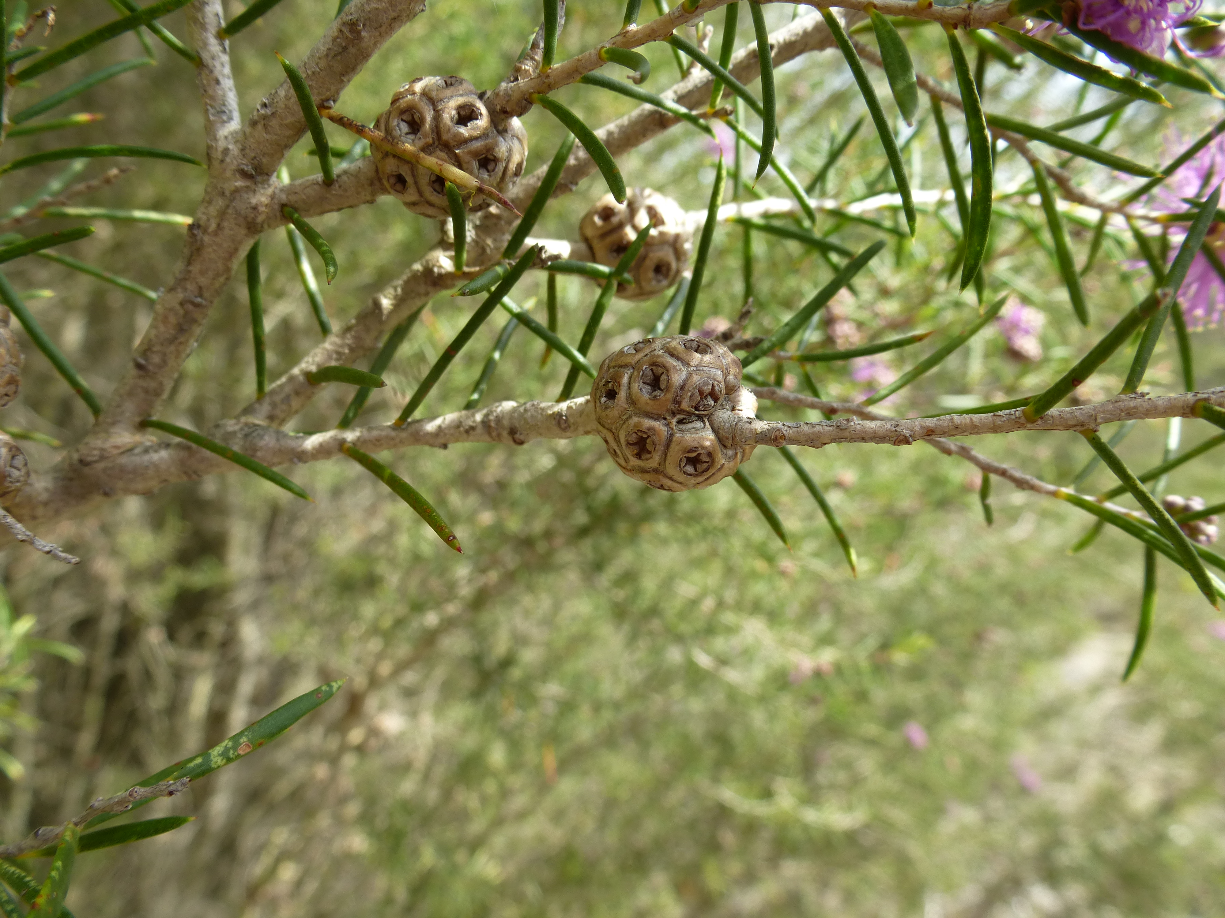 Melaleuca pentagona growing in the Esperance wetlands area